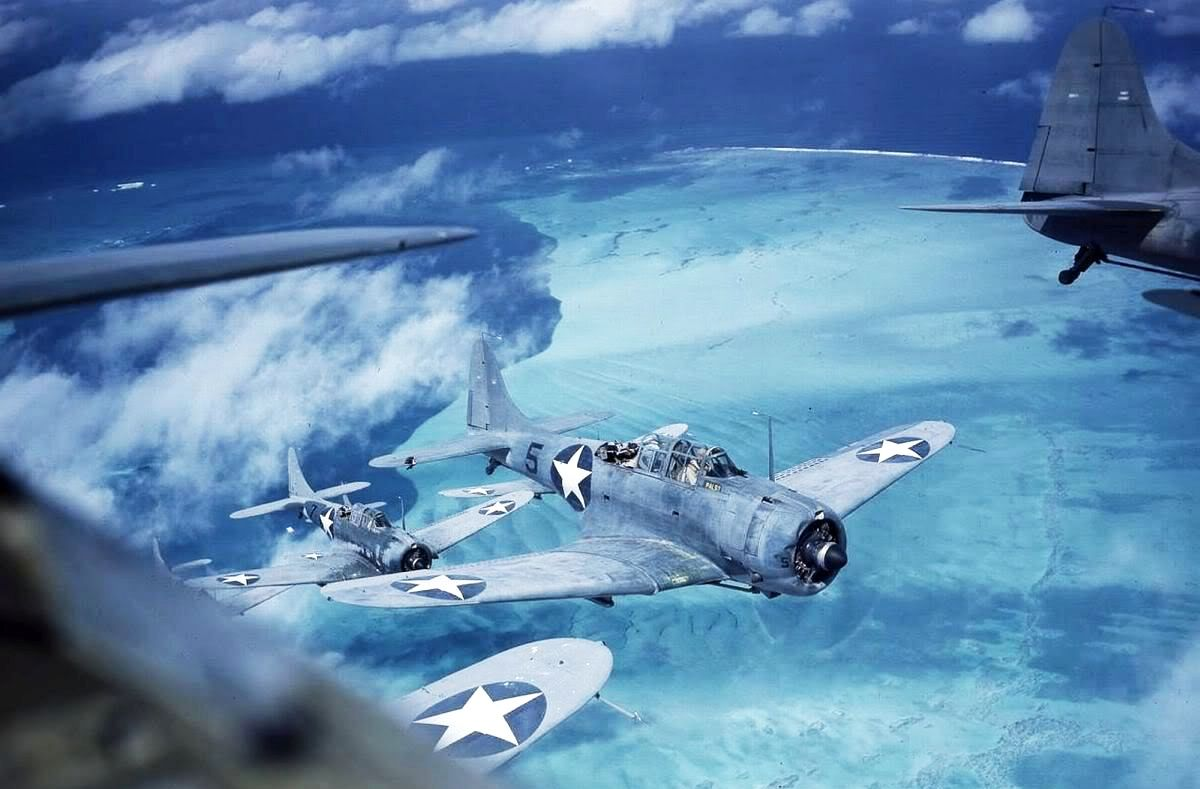 U.S. Marine Corps Douglas SBD-3 Dauntless of Marine Scouting Bombing Squadron 241 (VMSB-241) in flight over Midway Atoll, in 1942-1943. By August 1942, the squadron received the updated SBD-3, and the old SBD-2s and Vought SB2U-3 Vindicators that survived the Battle of Midway were withdrawn. VMSB-241 continued to operate out of Midway until November 1943.[1]